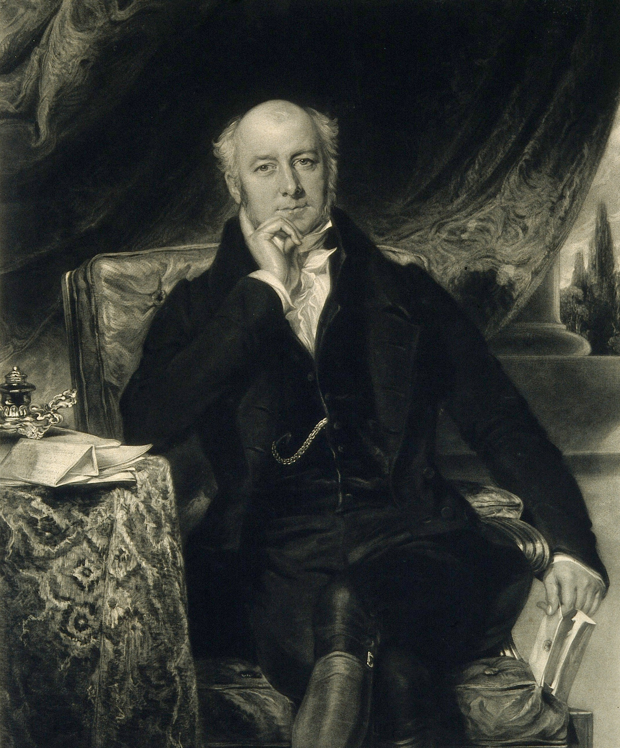 Sir Charles Mansfield Clarke, 1st Baronet (1782–1857)